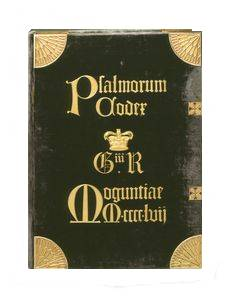 18th-century bookbinding with the monogram of George III, Mainz psalter